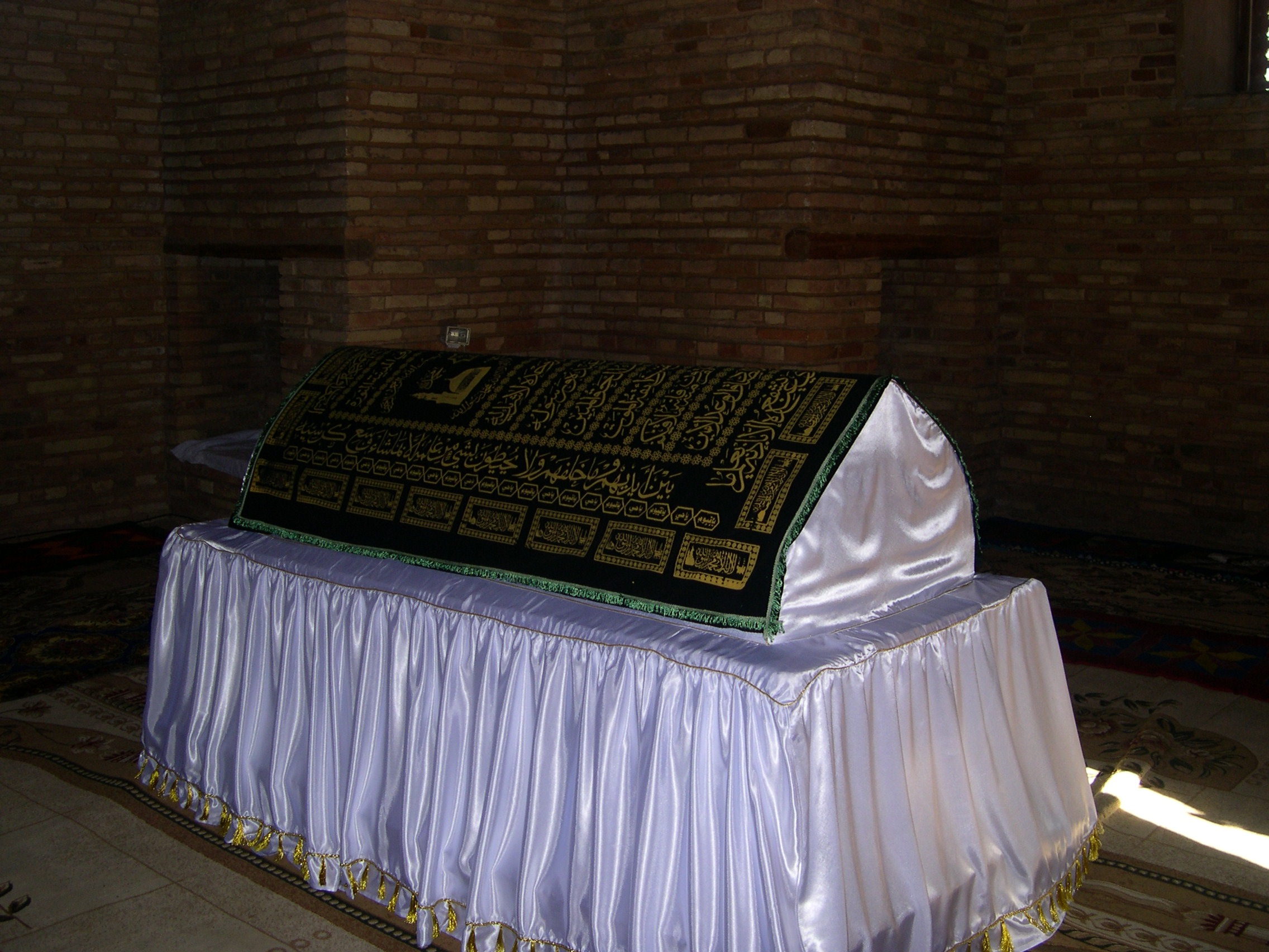 Who everyone in Taraz just knows as Karakhan, even though Karakhan is really the name of an entire dynasty.